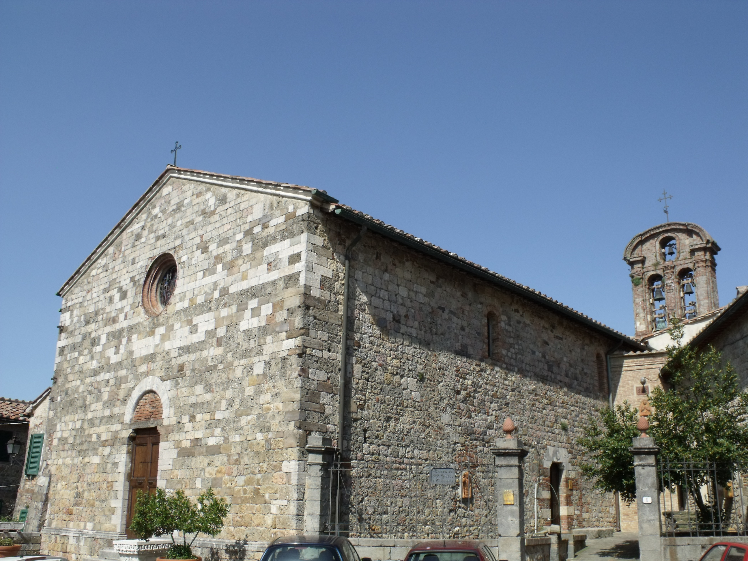 Church / Chiesa dei Santi Giusto e Clemente in Monticiano, Province of Siena, Tuscany, Italy